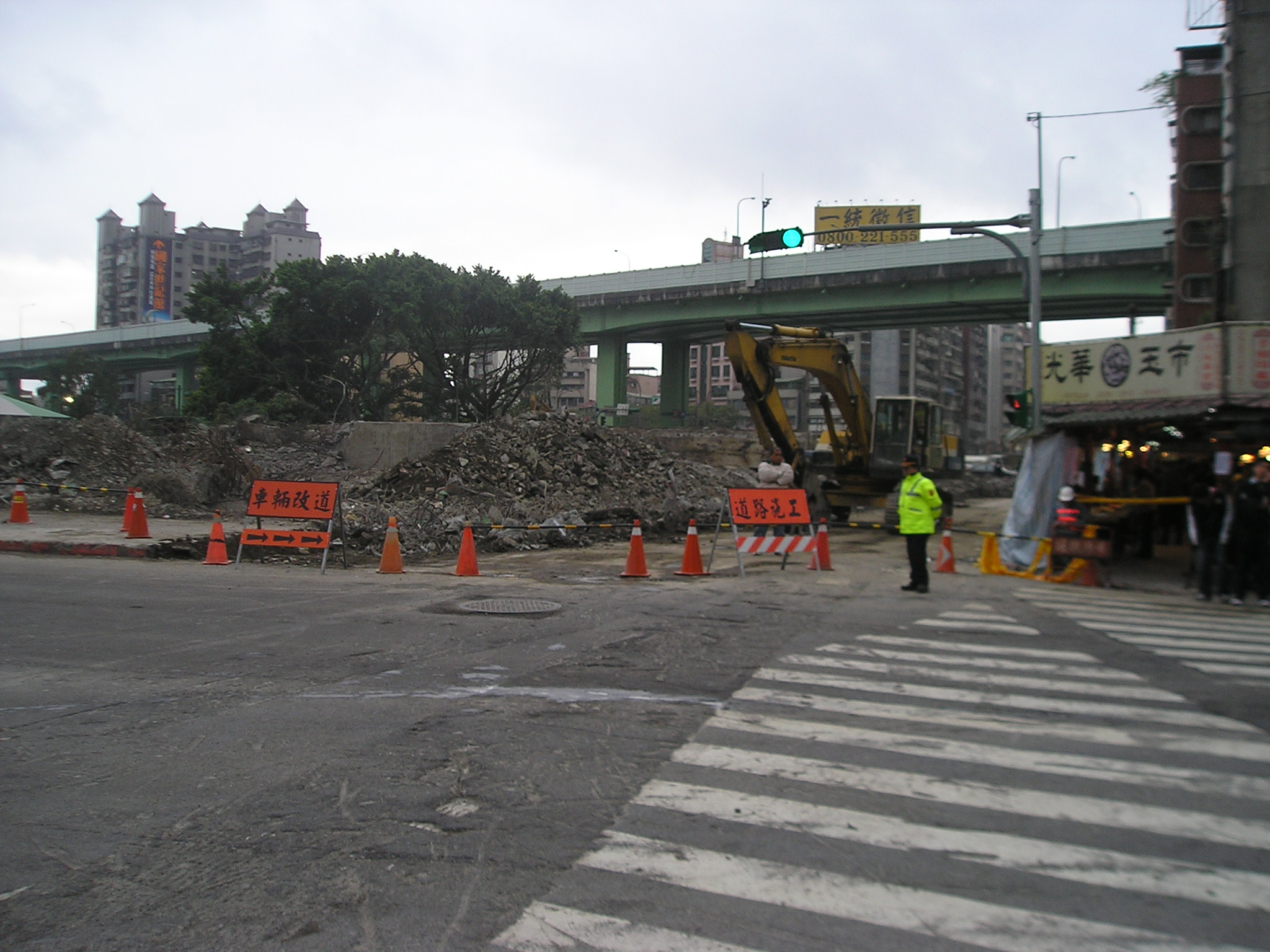 Former place of Guang-hua Computer Market in Taipei.